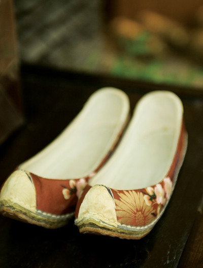 Women's gomusin (rubber shoes) decorated with gorgeous-looking flower patterns (Courtesy of Park Sul-nyeo Hanbok) (Source: Han Style)